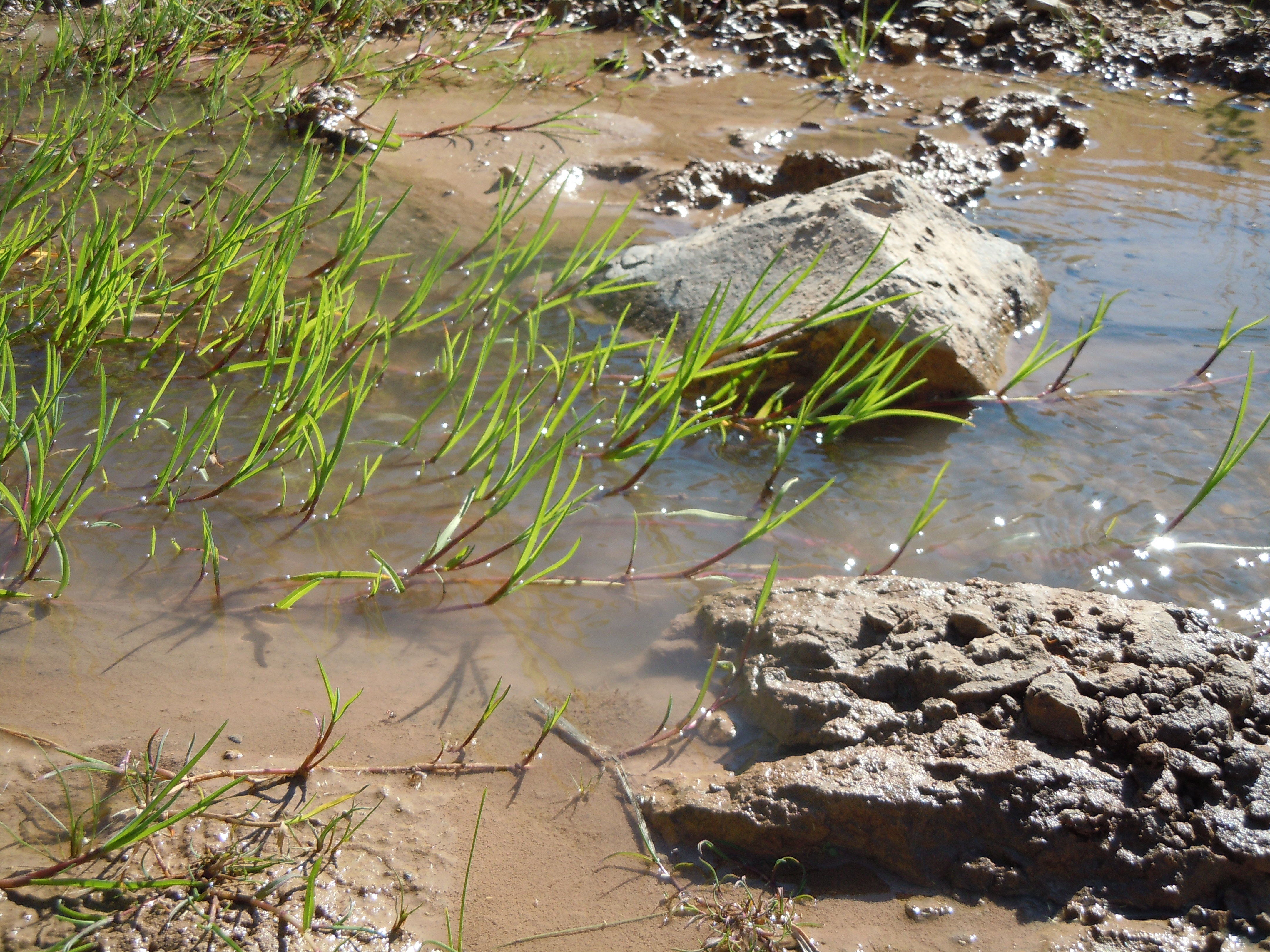 Catabrosa is locally abundant yet not everywhere present in slow moving streams and lakes in the mountains. Note the transverse folds or wrinkles on the leaf blades, which is distinctive of this species.